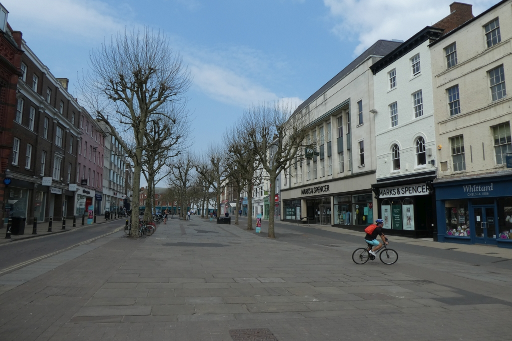 Parliament Street deserted due to the COVID-19 pandemic